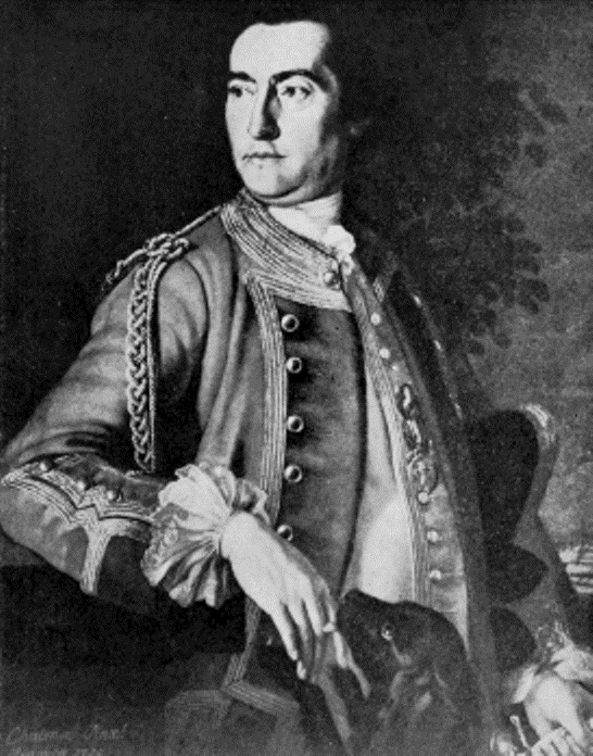 Edward Cornwallis (1713-1776): "The Founder of Halifax."